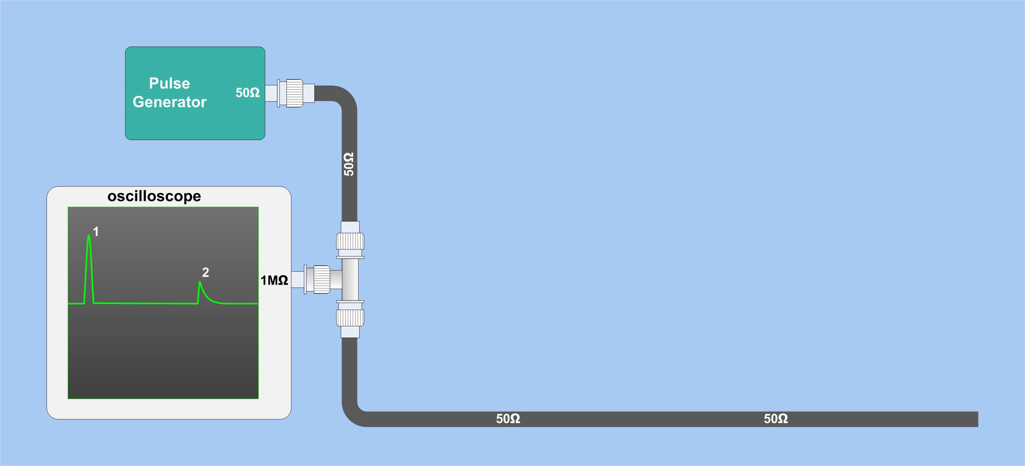 A block diagram of a simple TDR (Time Domain Reflectometer) consisting of a pulse generator and an oscilloscope.